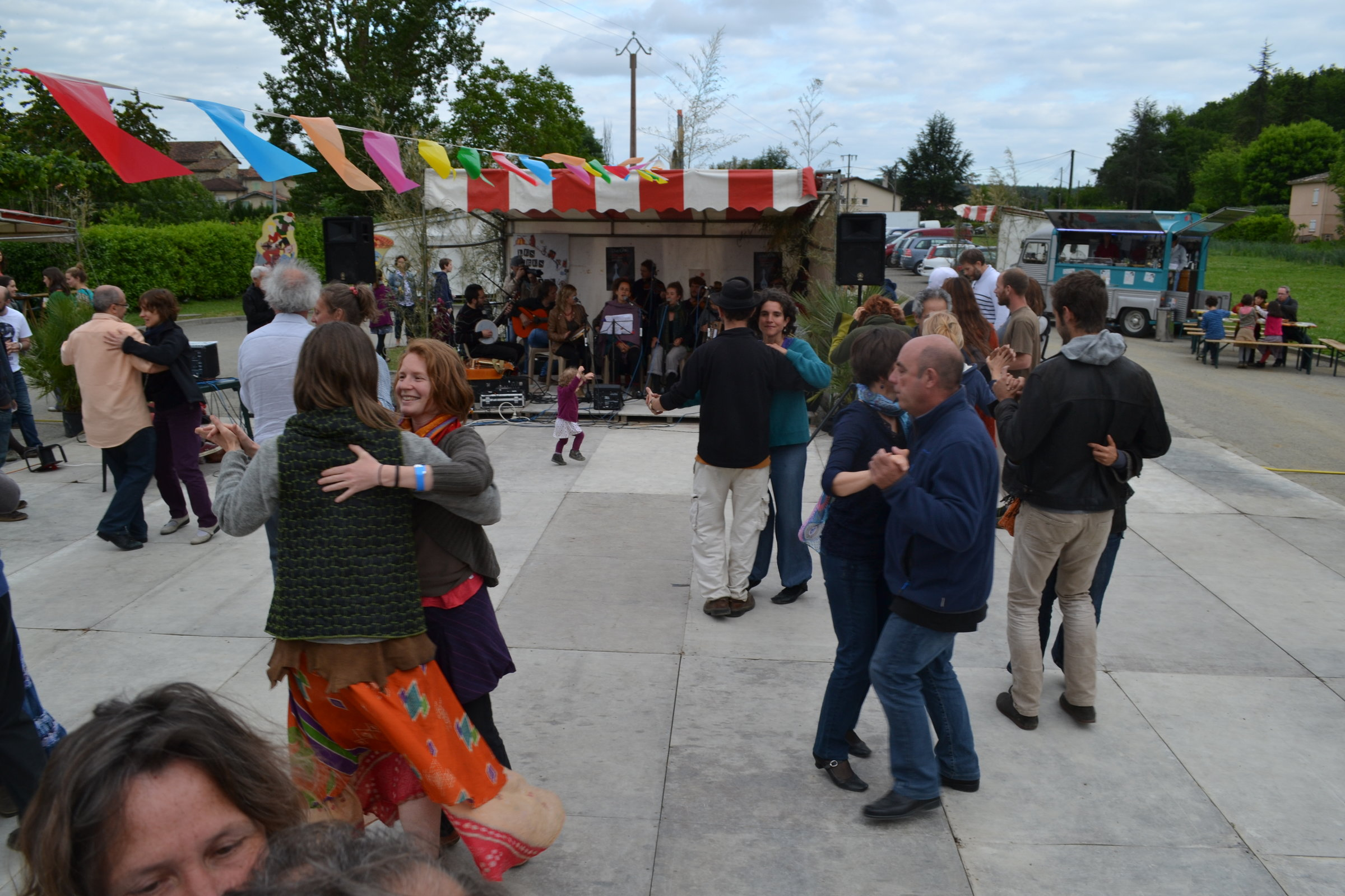 Toulouse DEM ball during Trad'envie 2015.